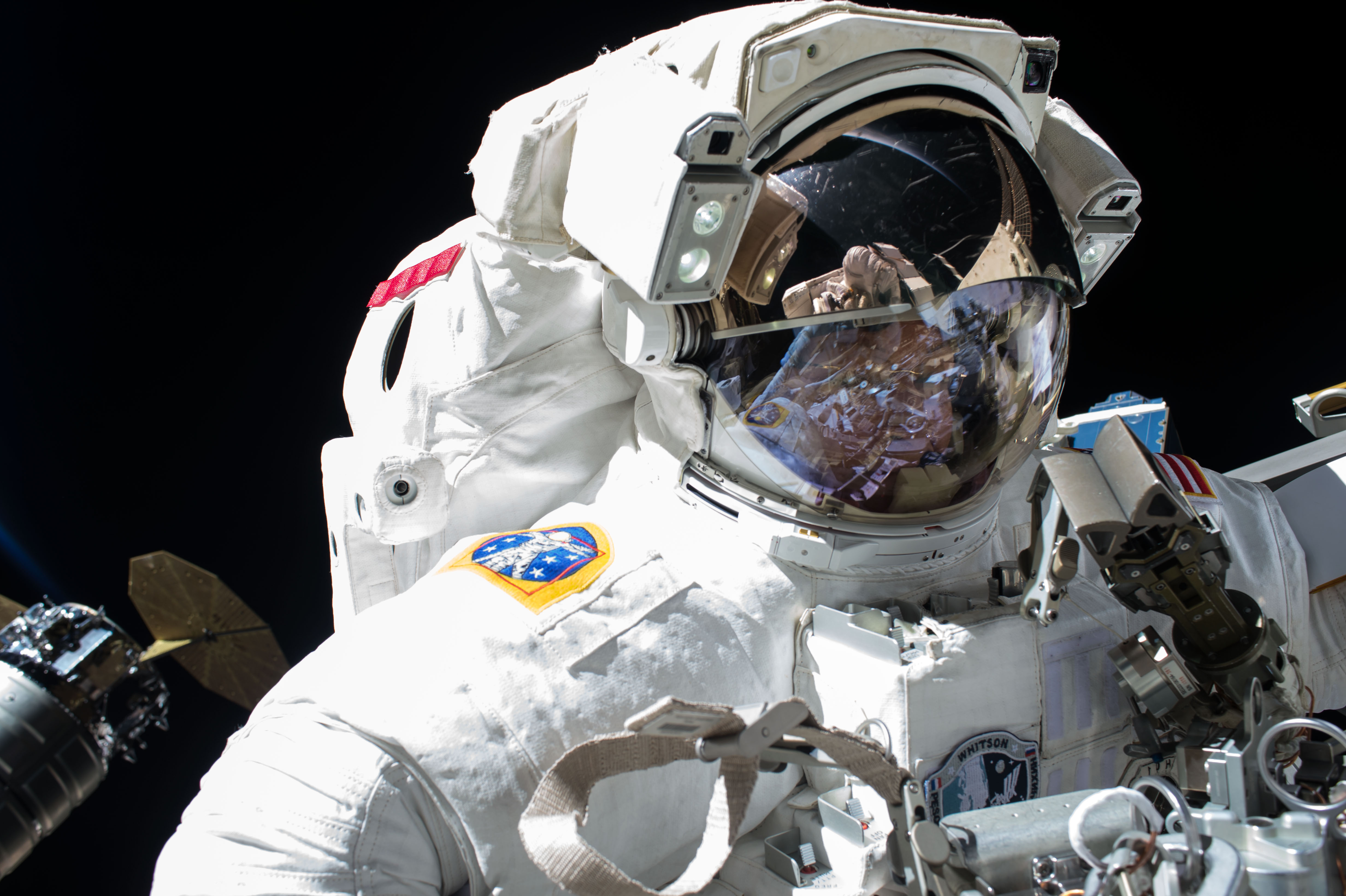 NASA astronaut Peggy Whitson is seen during the 200th spacewalk in support of the International Space Station. The Orbital ATK Cygnus resupply, and one of its prominent Ultraflex solar arrays, is in the backgrund behind Whitson.